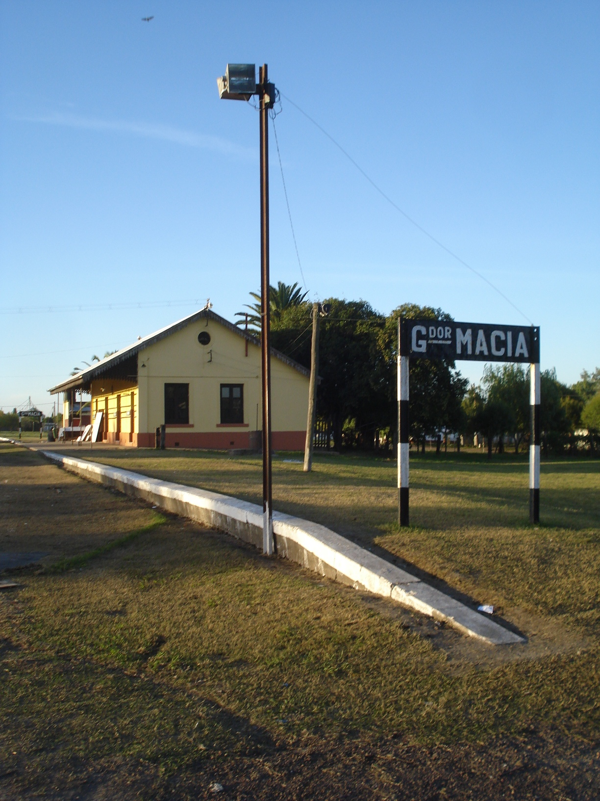 Gobernador Maciá train station, in Maciá, Entre Ríos Province, Argentina.